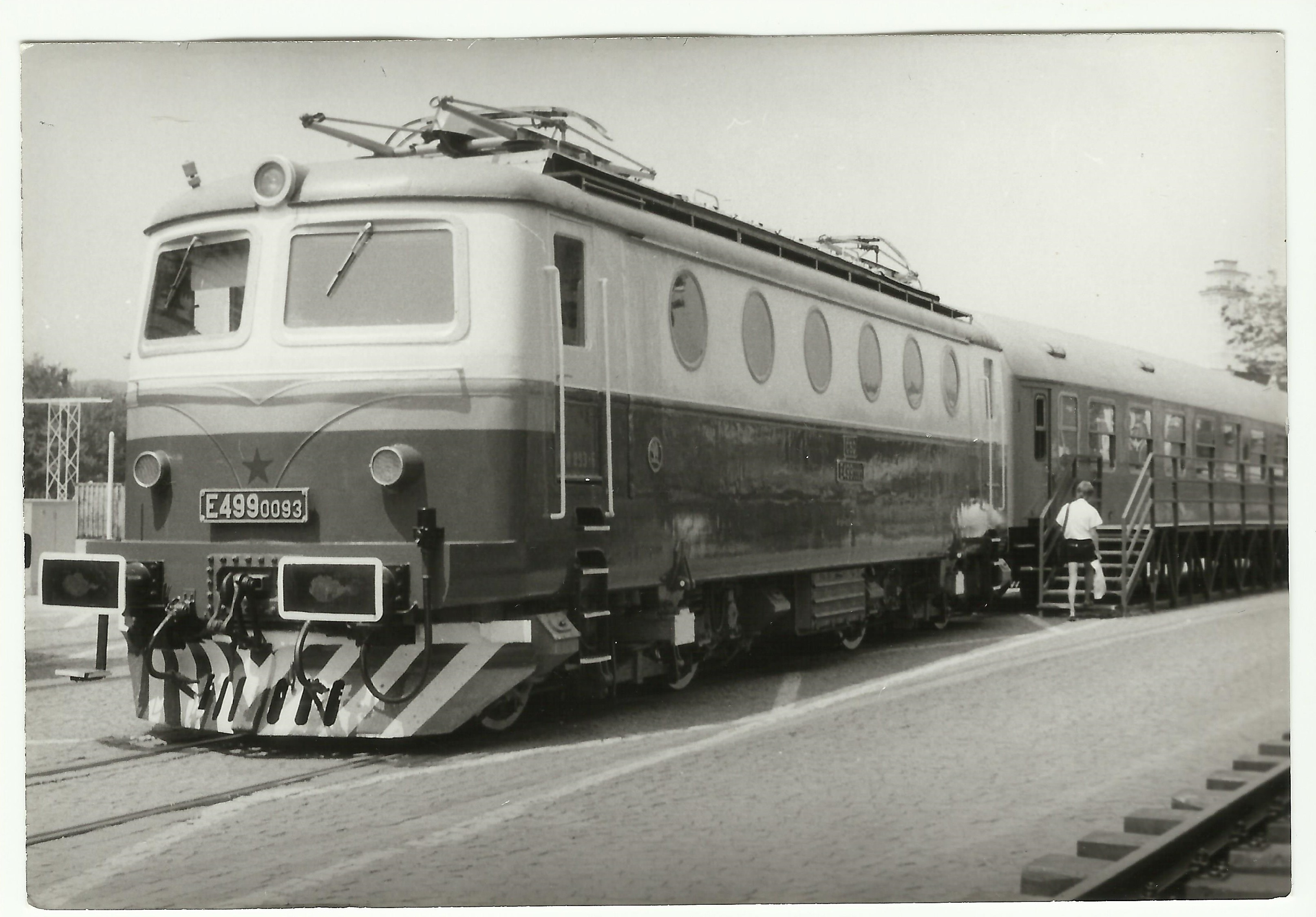 Brno Exhibition Centre, electric locomotive E 499 0093 (Czechoslovakia).